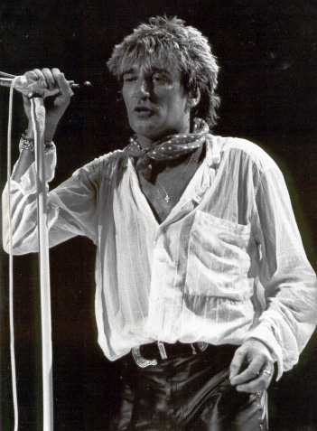 Rod Stewart in concert at the Zénith de Paris on July 10, 1986